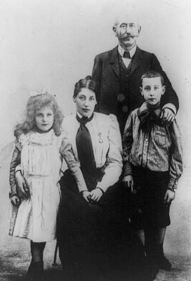 Alfred Dreyfus (1859-1935) with his wife, née Lucie Hadamard (1869-1945), and their two children, Pierre (1891-1946) and Jeanne Levy (1893-1981).